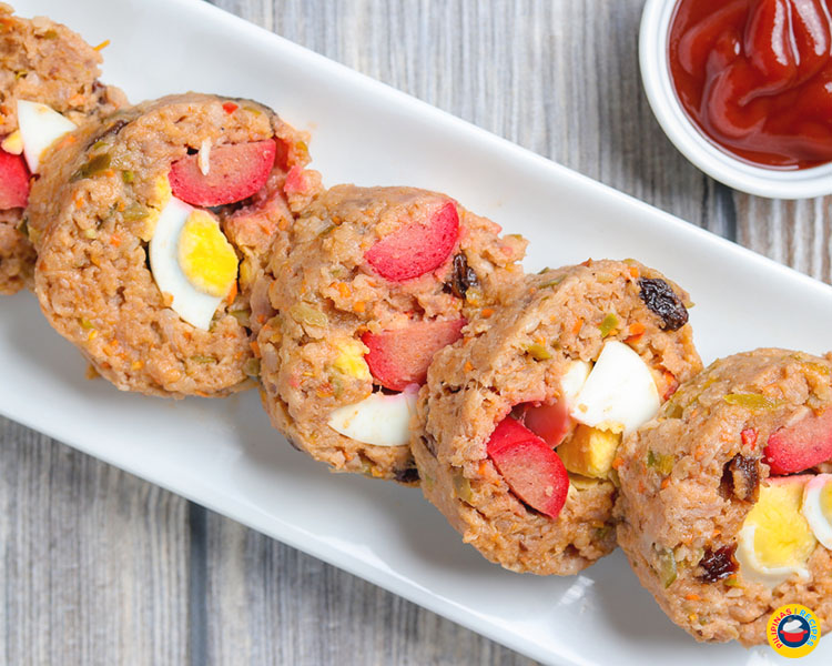 The Filipino Version of Pork Embutido